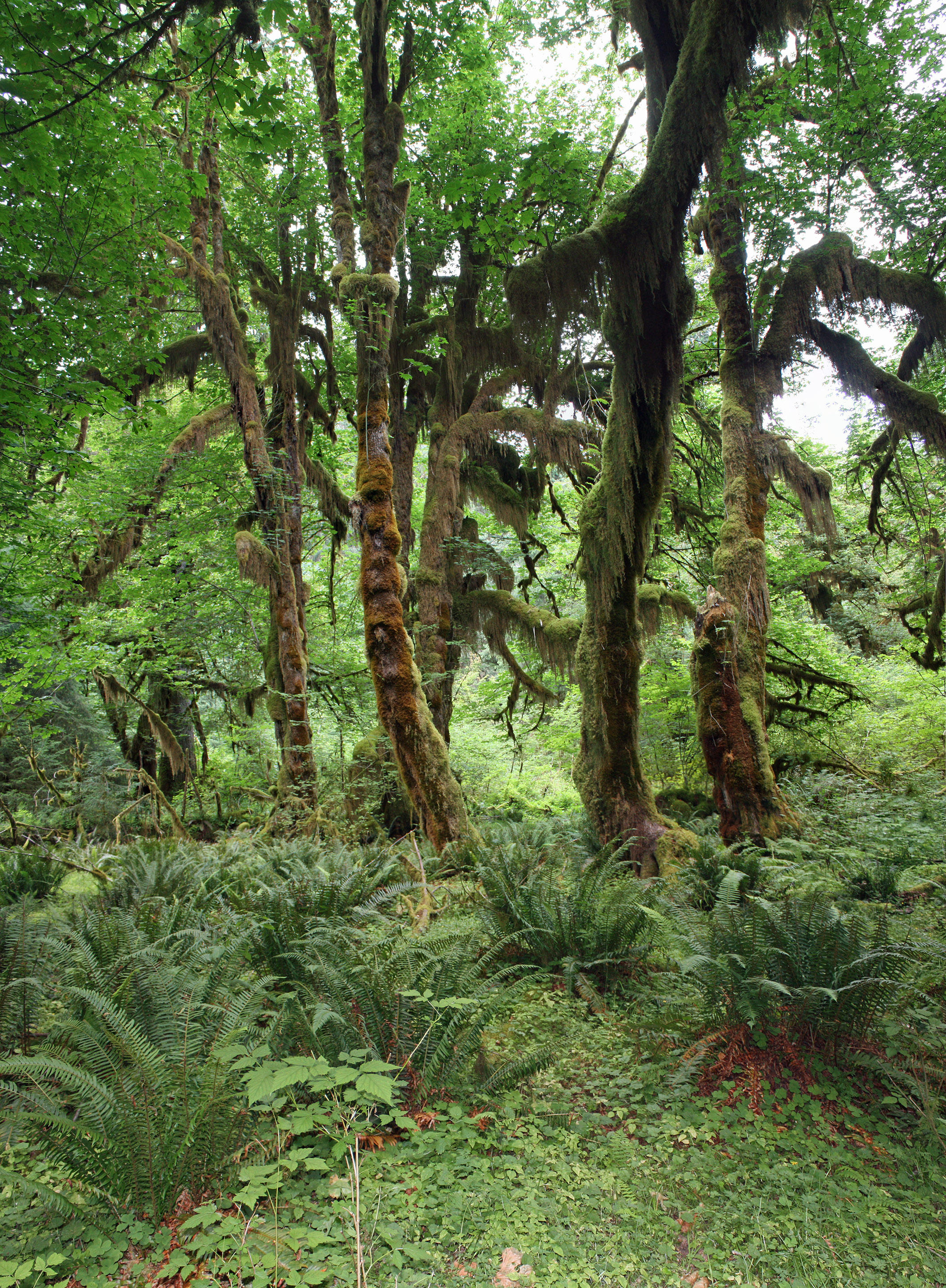 View of bigleaf maples (Acer macrophyllum) covered with epiphytic spikemoss (Selaginella oregana) and licorice ferns (Polypodium glycyrrhiza) in the Hoh Rainforest, Olympic National Park, Washington, USA. A nurse log lies on the forest floor on the left.